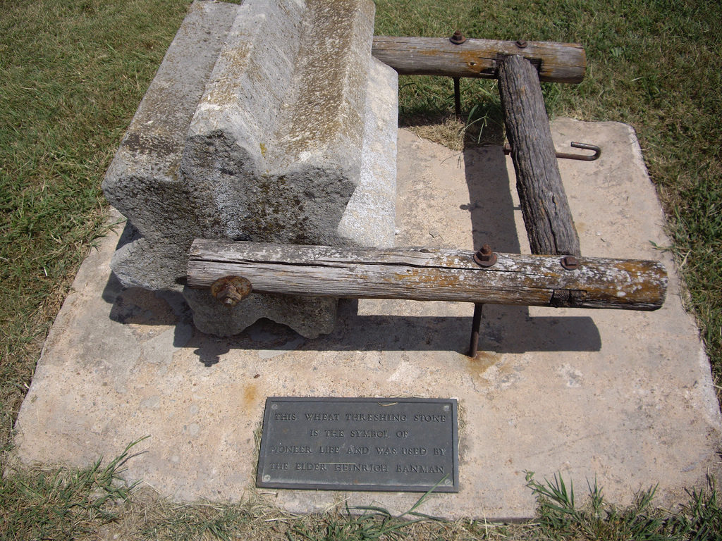 A wheat threshing stone at Alexanderwohl Mennonite Church northeast of Goessel, Kansas, USA. Photo by Steve Meirowsky on August 7, 2010. Note: The text on the plate reads: "This wheat threshing stone is the symbol of pioneer life and was used by the elder Heinrich Banman."